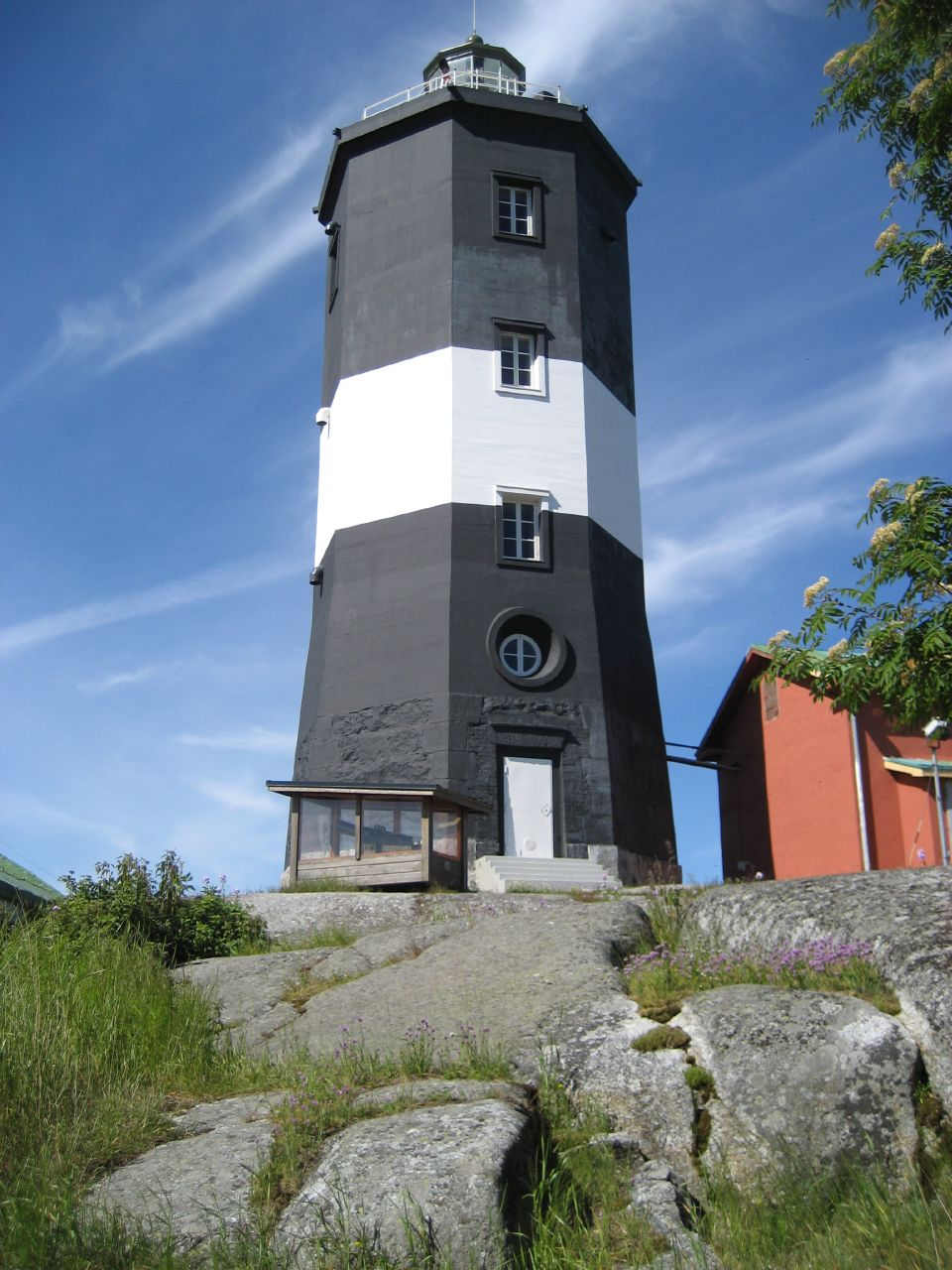 Norrskär lighthouse in Korsholm, Finland